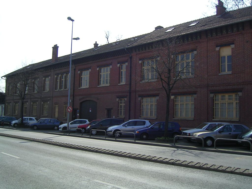 Ancienne usine Westinghouse, avenue Westinghouse Photo personnelle (own work) de Marianna